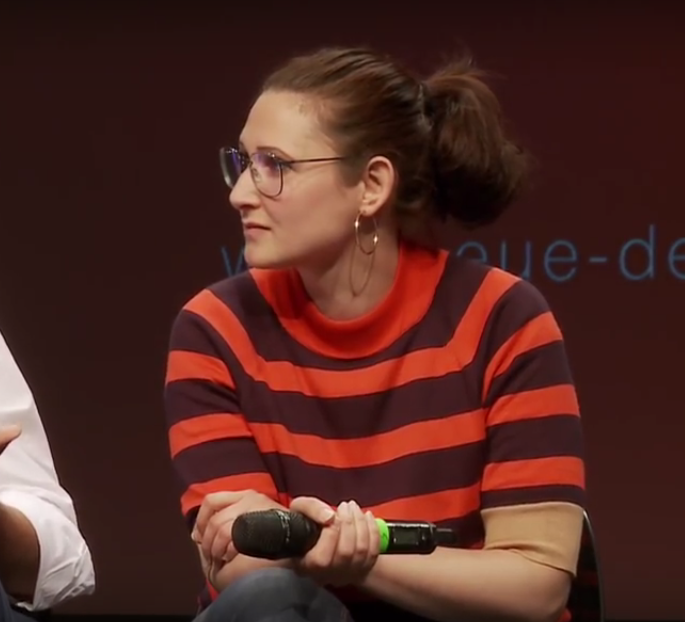 Ferda Ataman at re:publica session 2018